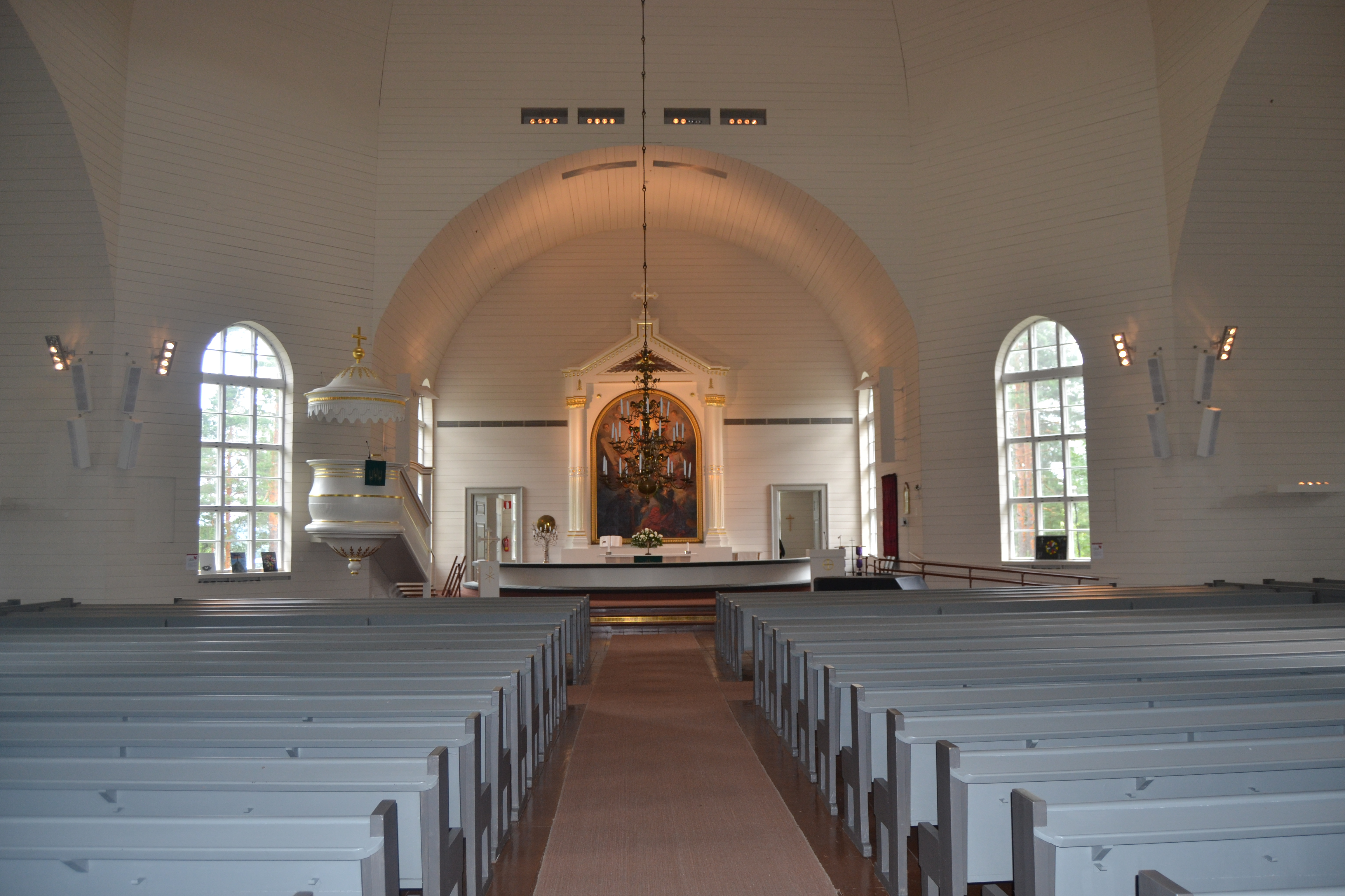 Interior of Laukaa Church in Finland